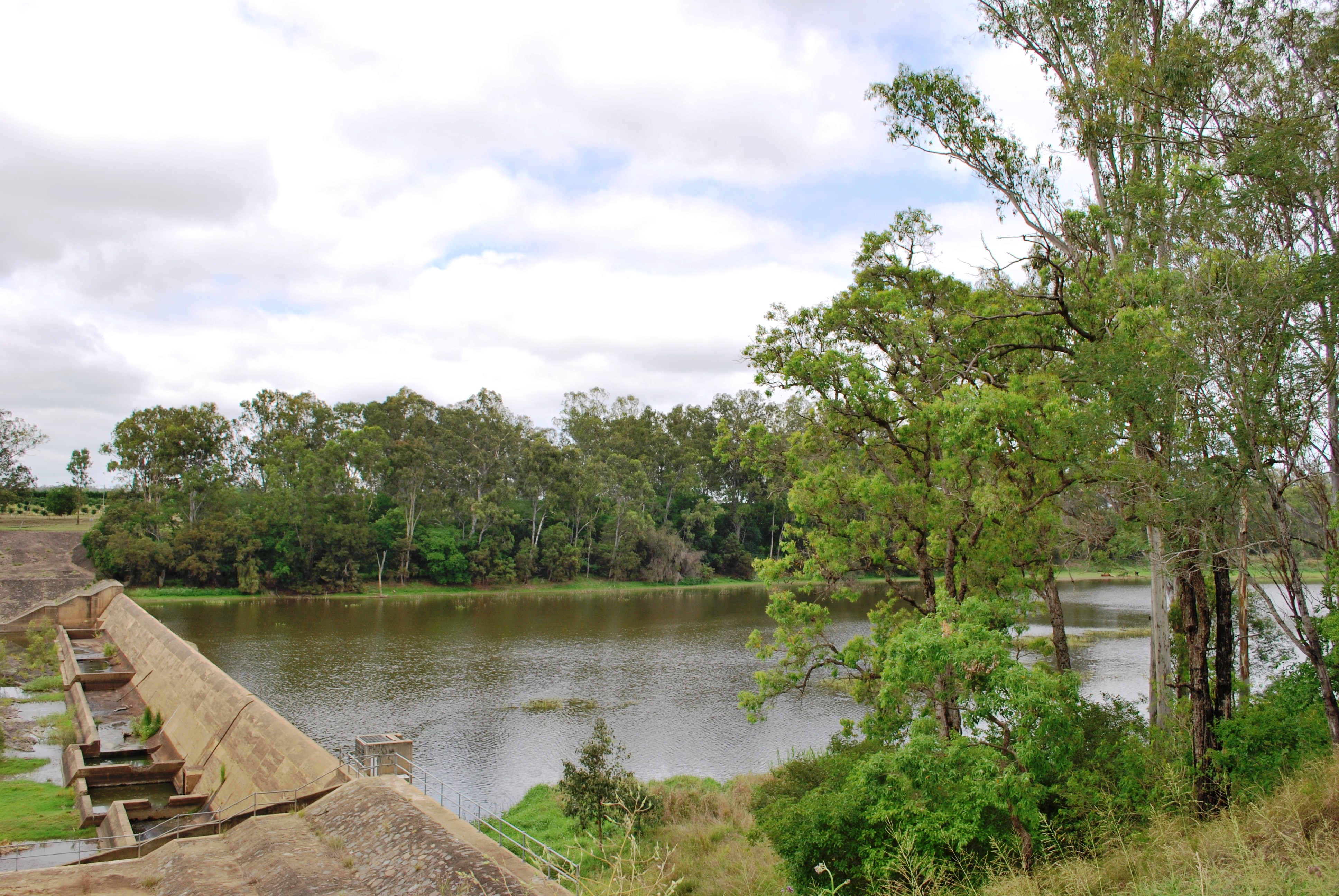 Jones Weir on the Burnett River at Mundubbera, Queensland